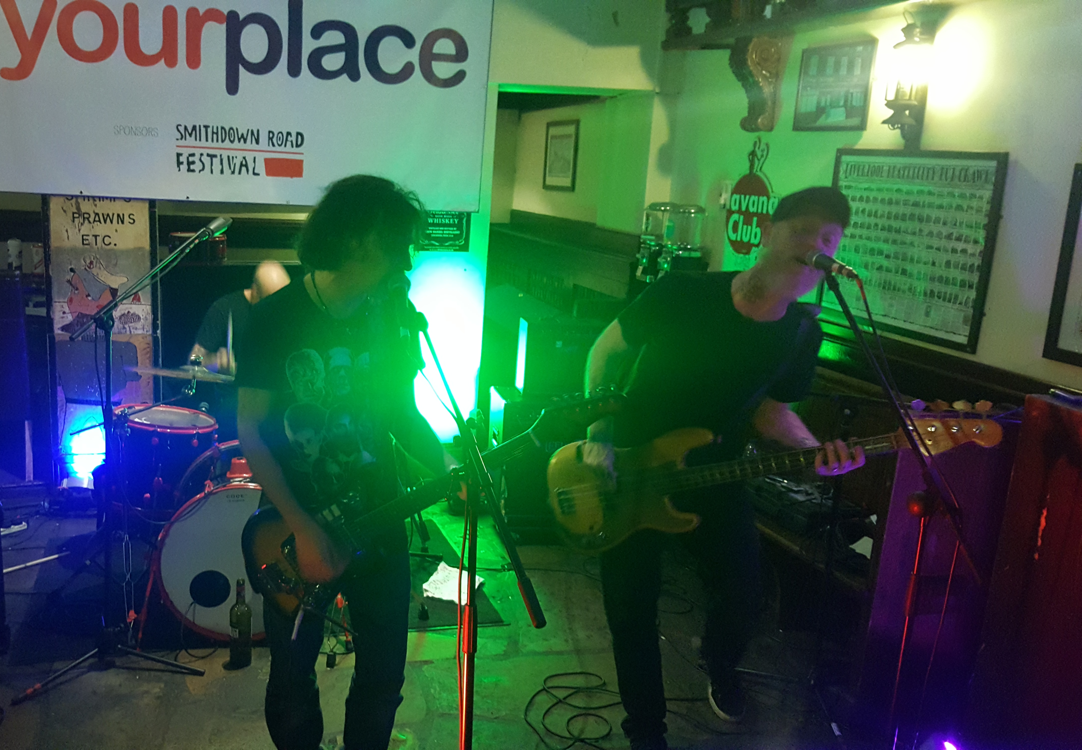 Three quarters of the members of UK band Space play a "secret gig" at Liverpool's Smithdown Road Festival, 13th October 2018.